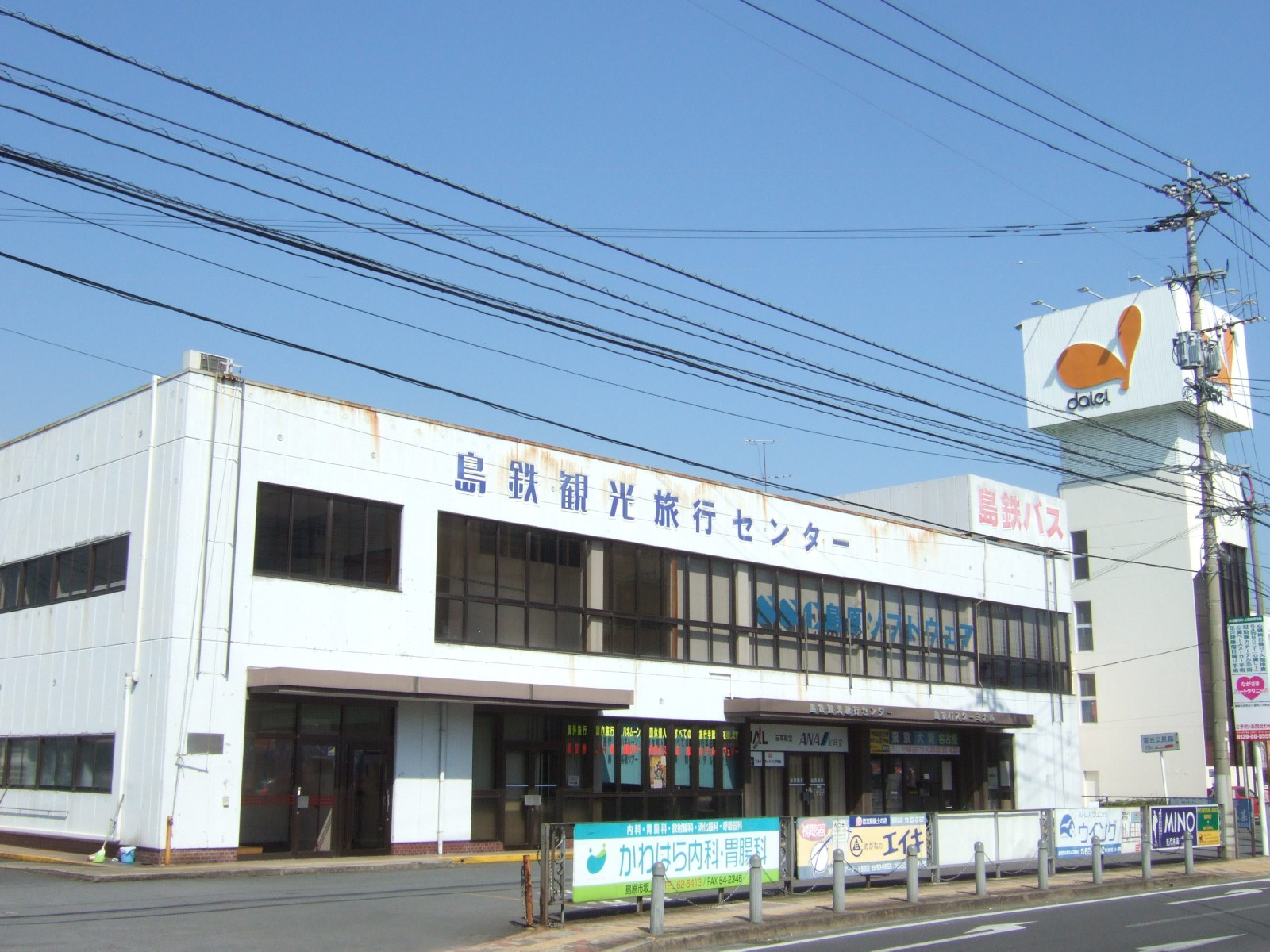 Shimatetsu Bus Terminal